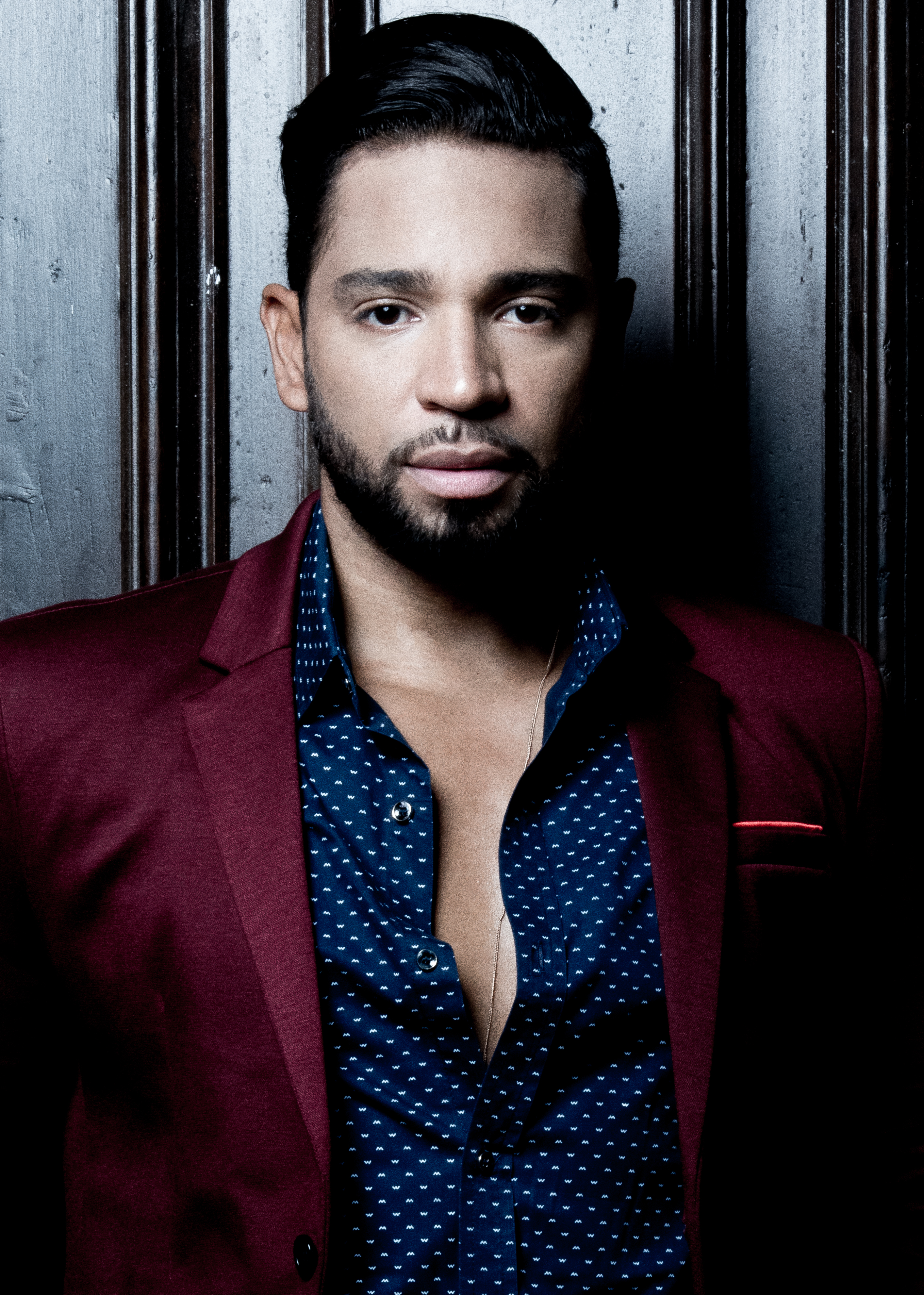 Image of Henry Santos Jeter in 2016.